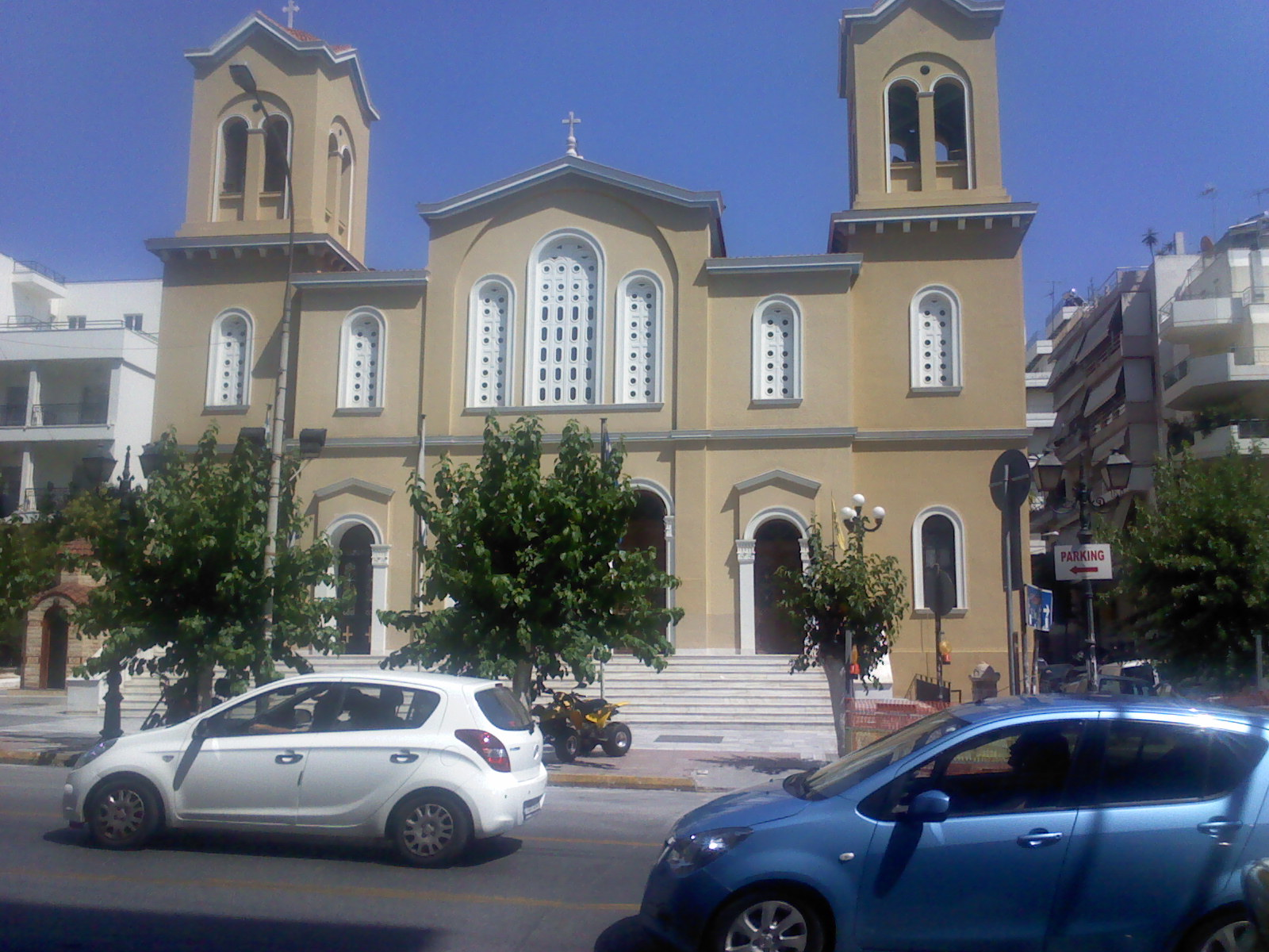 Evangelistria Pirea